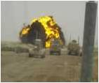 On 4 May, Bravo Co successfully launched four mine-clearing line charges (MICLICs) to breach RTE Headhunters, a heavily mined route, detonating at least 4 IEDs and multiple anti-tank mines during the initial breach. In doing so, the company became one of only a handful of engineer companies to conduct the task in a combat environment since the start of war in Iraq.